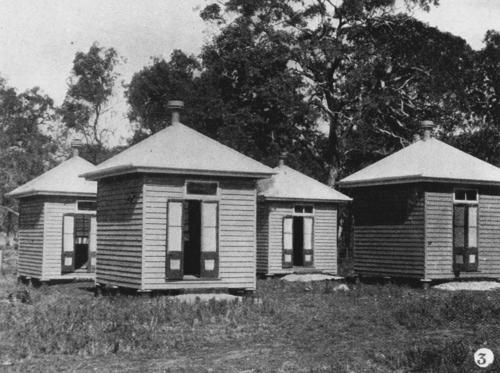 Huts constructed for patients on Peel Island, Moreton Bay, 1907